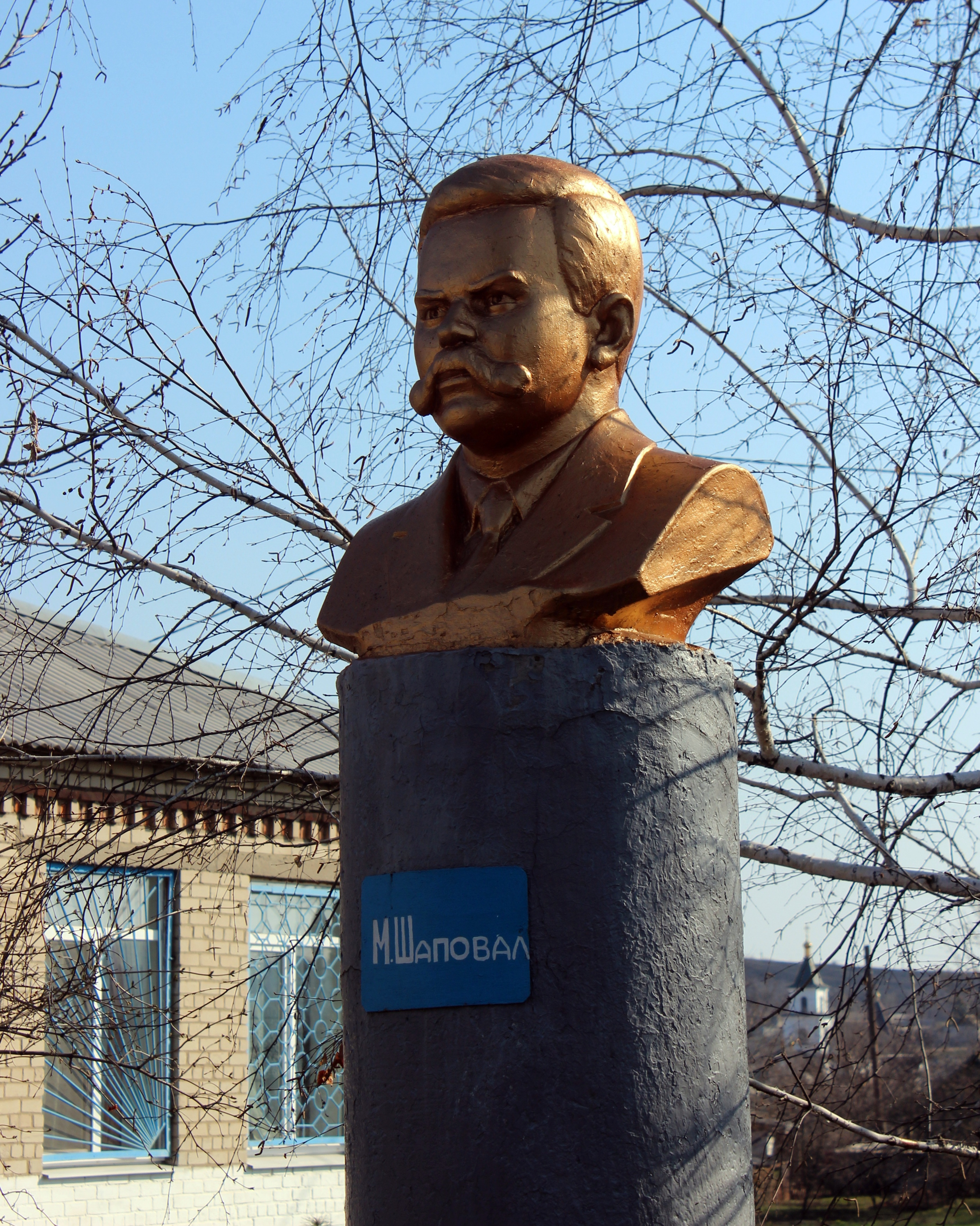 Serebryanka, Ukraine